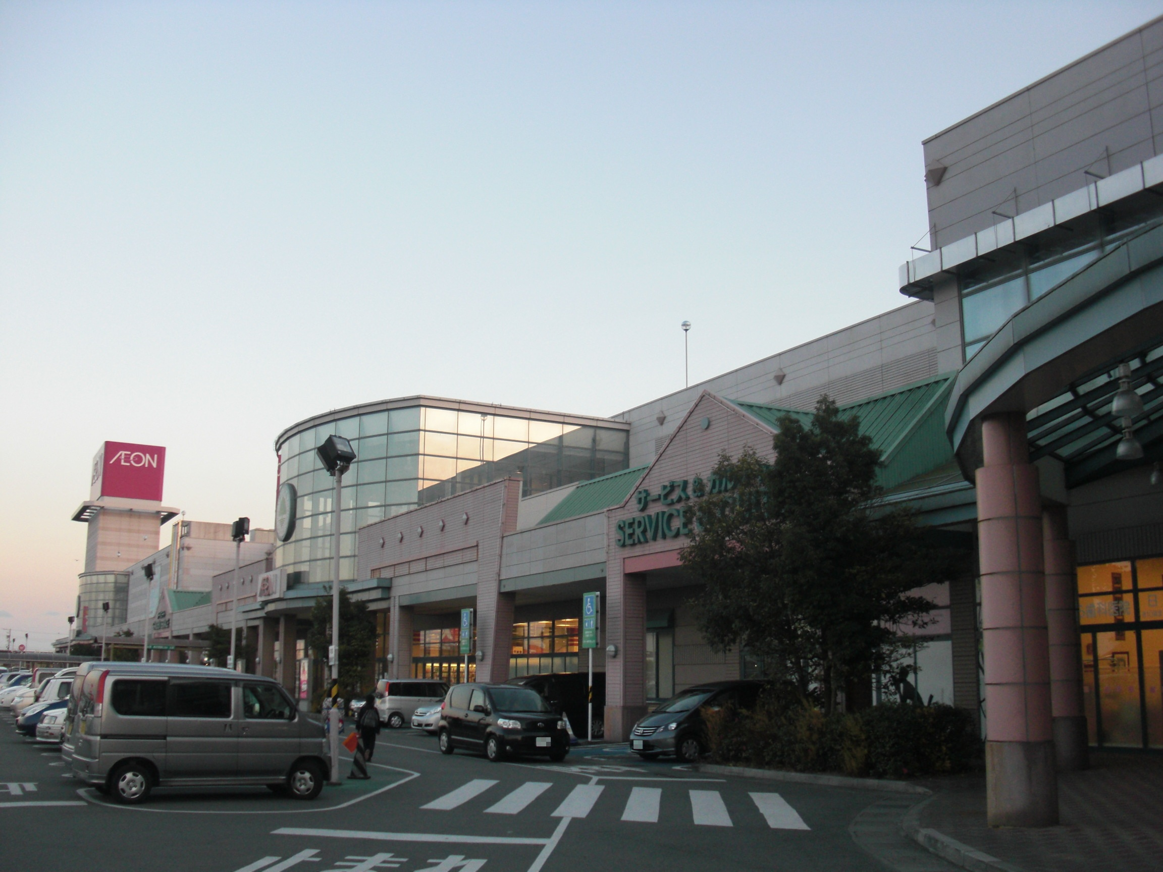 This is the ÆON Mall Meiwa, which is located in Meiwa, Taki, Mie, Japan.